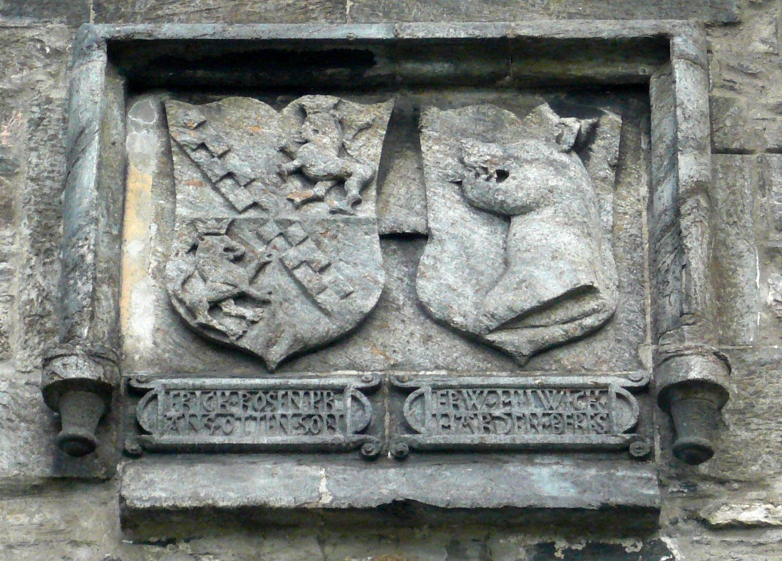 The coat of arm of Erik Rosenkrantz and Helvig Hardenberg at the Rosenkrantz Tower in Bergen